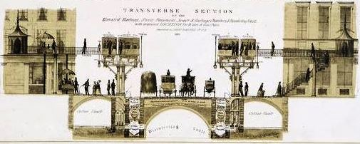 "View of Broadway in the city of New York with the proposed elevated rail-way invented by John Randel, Junr. C.E."